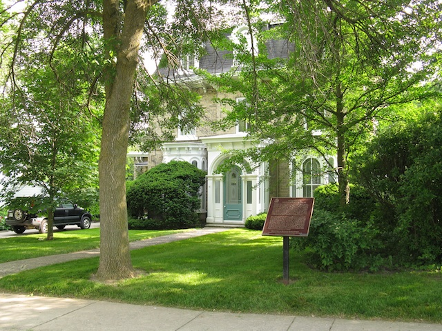 The federal plaque to the Home Children National Historic Event, in front of a house associated with it, in Stratford, Ontario.